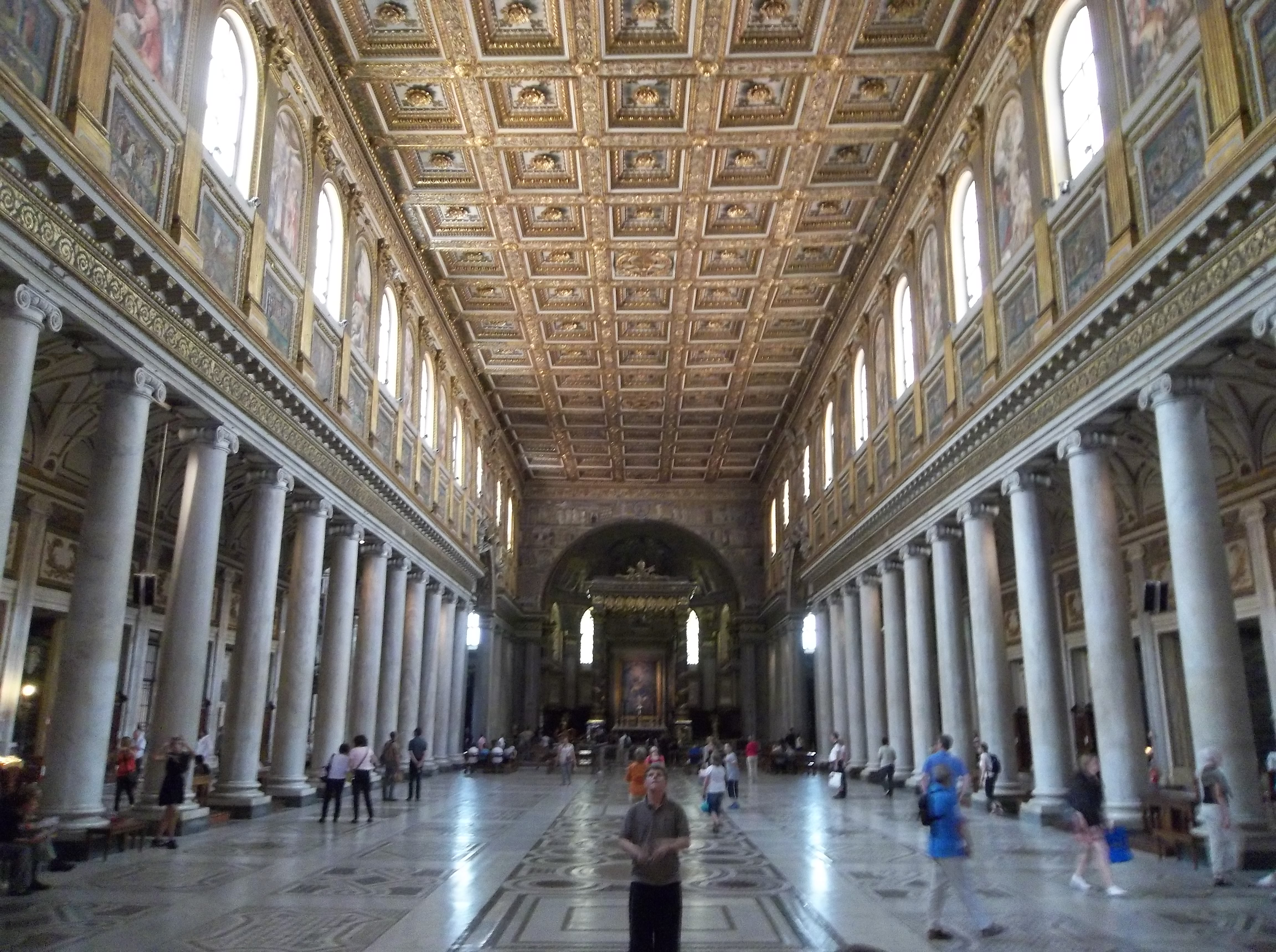 Basilica of Saint Mary Major